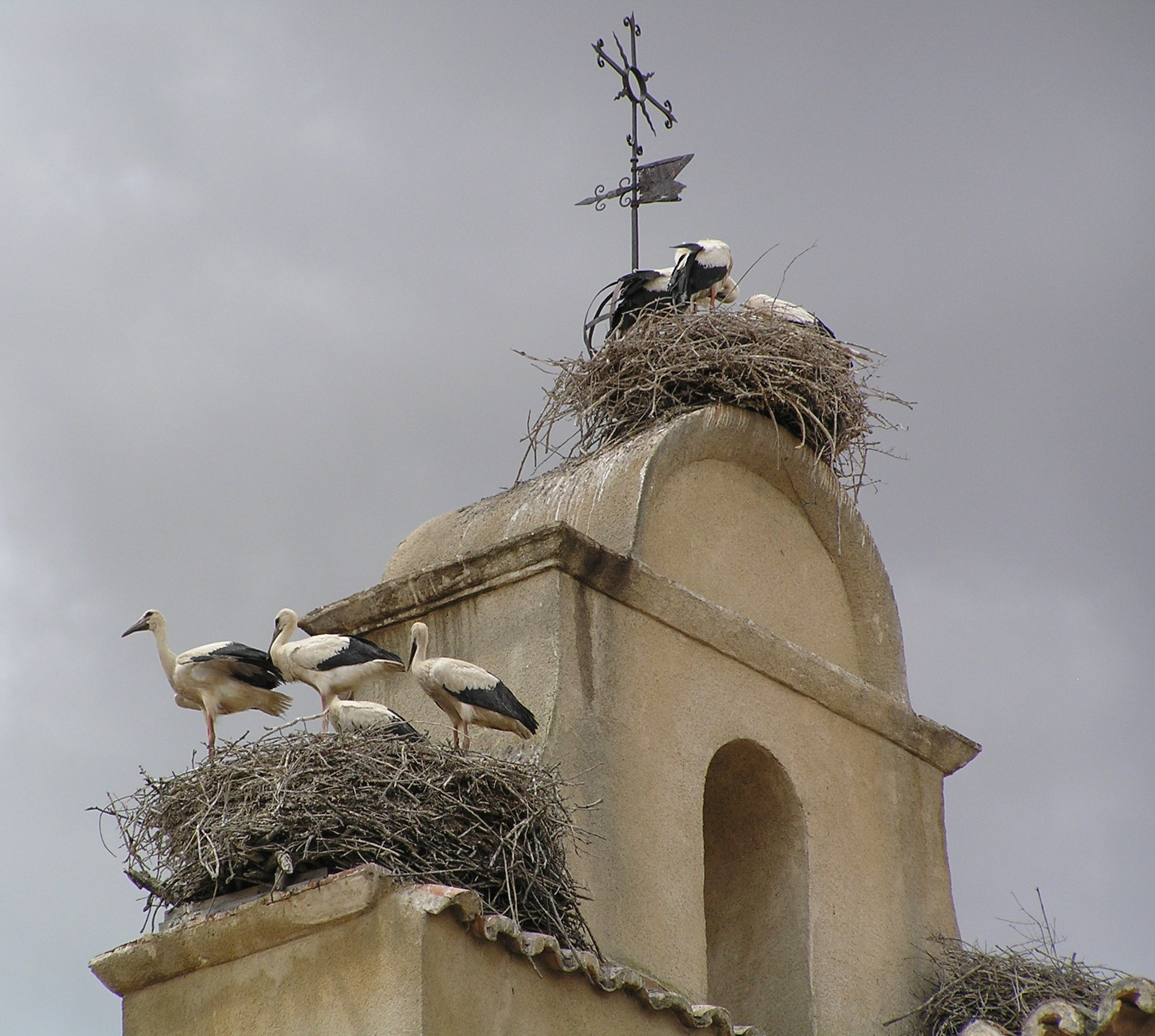 A small colony of nesting White Storks on the belfry of Church of San Isidoro, Ciudad Rodrigo, Province of Salamanca, Spain.